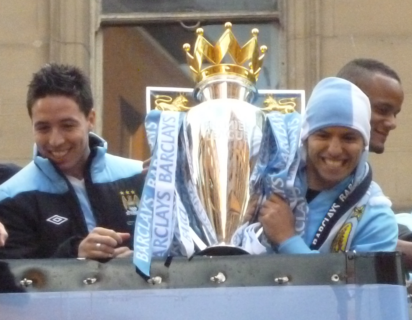 Samir Nasri (left) and Sergio Aguero (right) with the Premier League trophy during Manchester City's victory parade on 14 May 2012